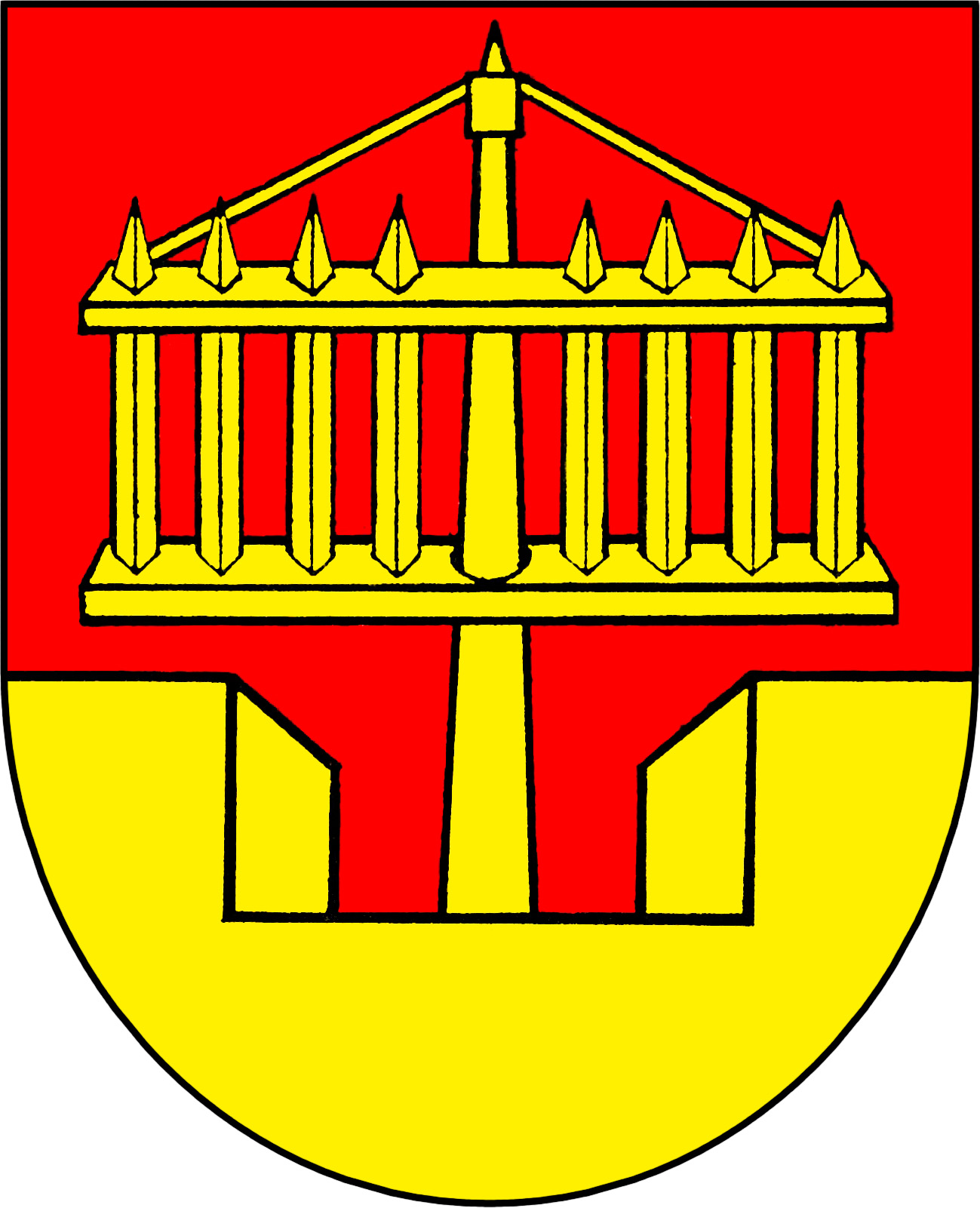 Municipal coat of arms of Bohdaneč village, Kutná Hora District, Czech Republic.